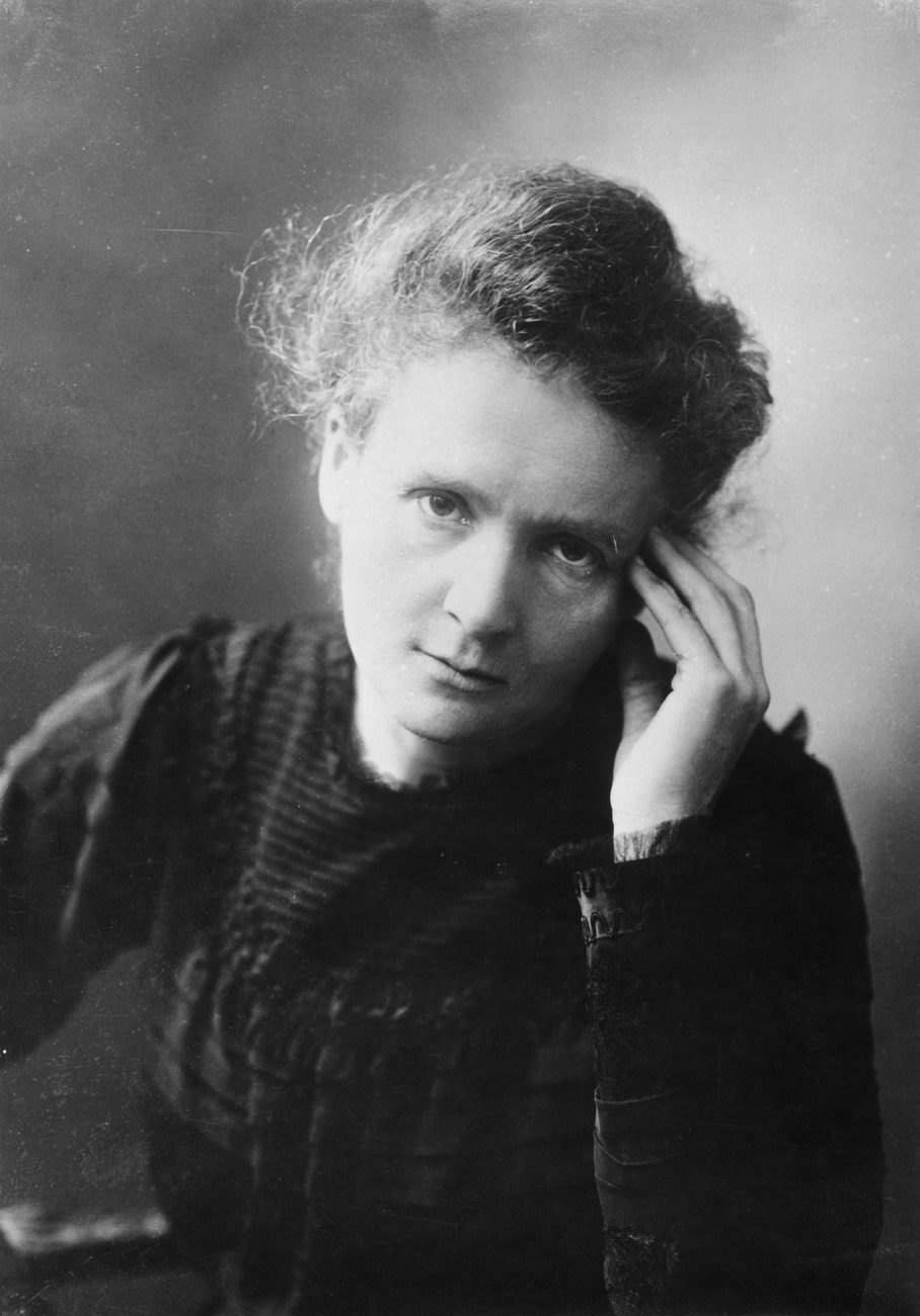 Portrait of Marie Curie. First female to win the Nobel prize. She received the Nobel prize in Physics in 1903 along with Henri Becquerel and her husband Pierre Curie for research on radioactivity. In 1911 she received the Nobel prize again, this time in chemistry for the discovery of radium and polonium.